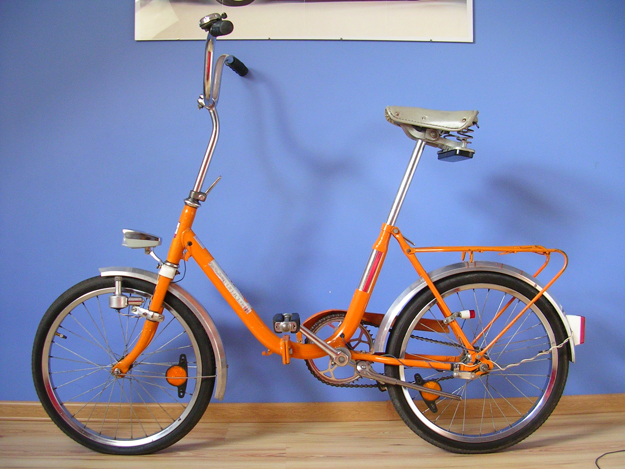 1976 Romet Flaming, polish vintage folding bike.